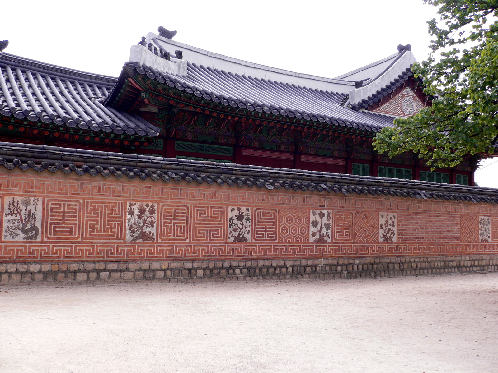 Wall outside of Jagyeongjeon in Gyeongbokgung, Seoul, South Korea